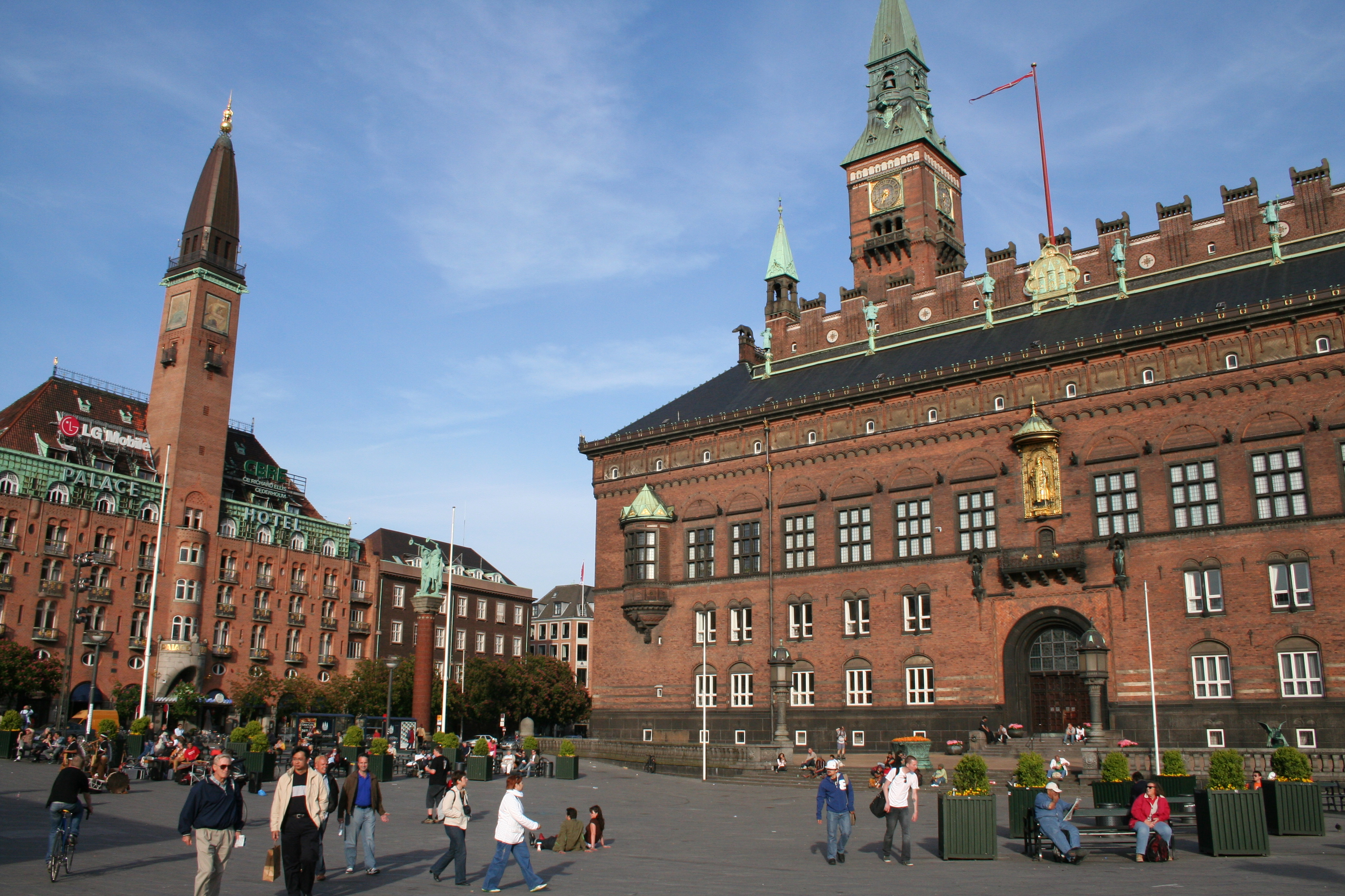 The City Hall Square in Copenhagen, Denmark. Palace Hotel to the left, Vartorv in the middle and the City Hall to the right